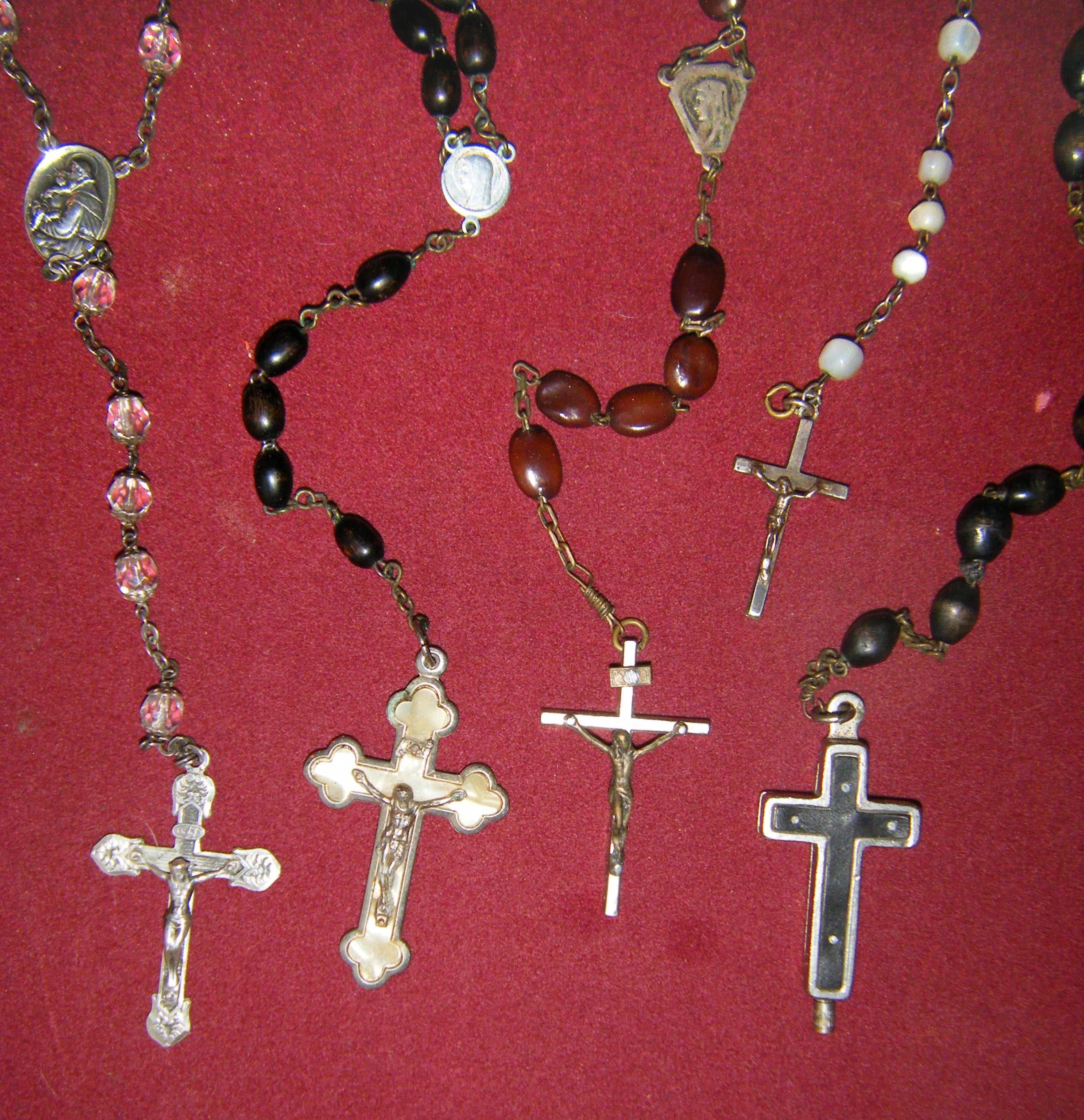 Rosaries old ant antiques